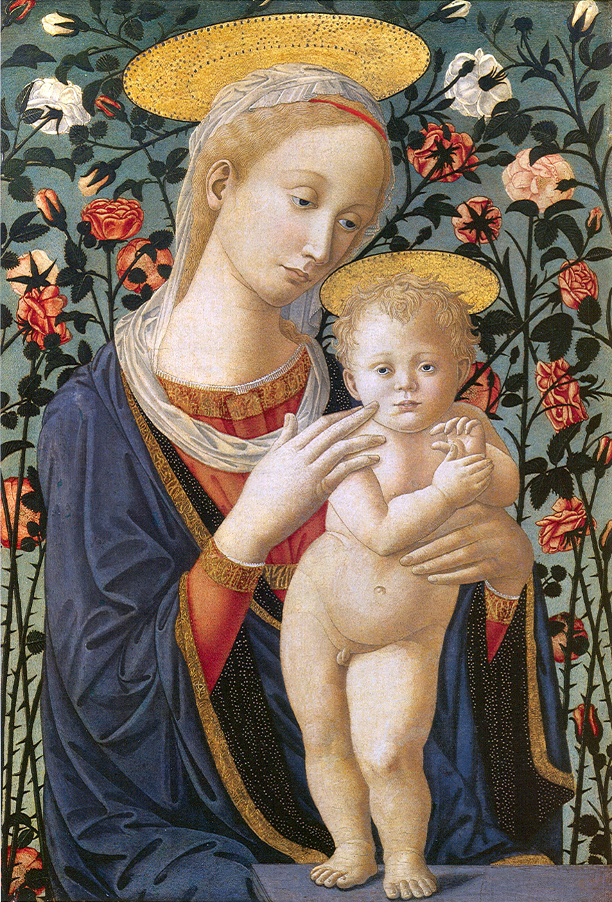 Madonna and Child Follower of Fra Filippo Lippi and Francesco Pesellino Tempera on panel, 67.2 x 46 cm Washington, National Gallery of Art